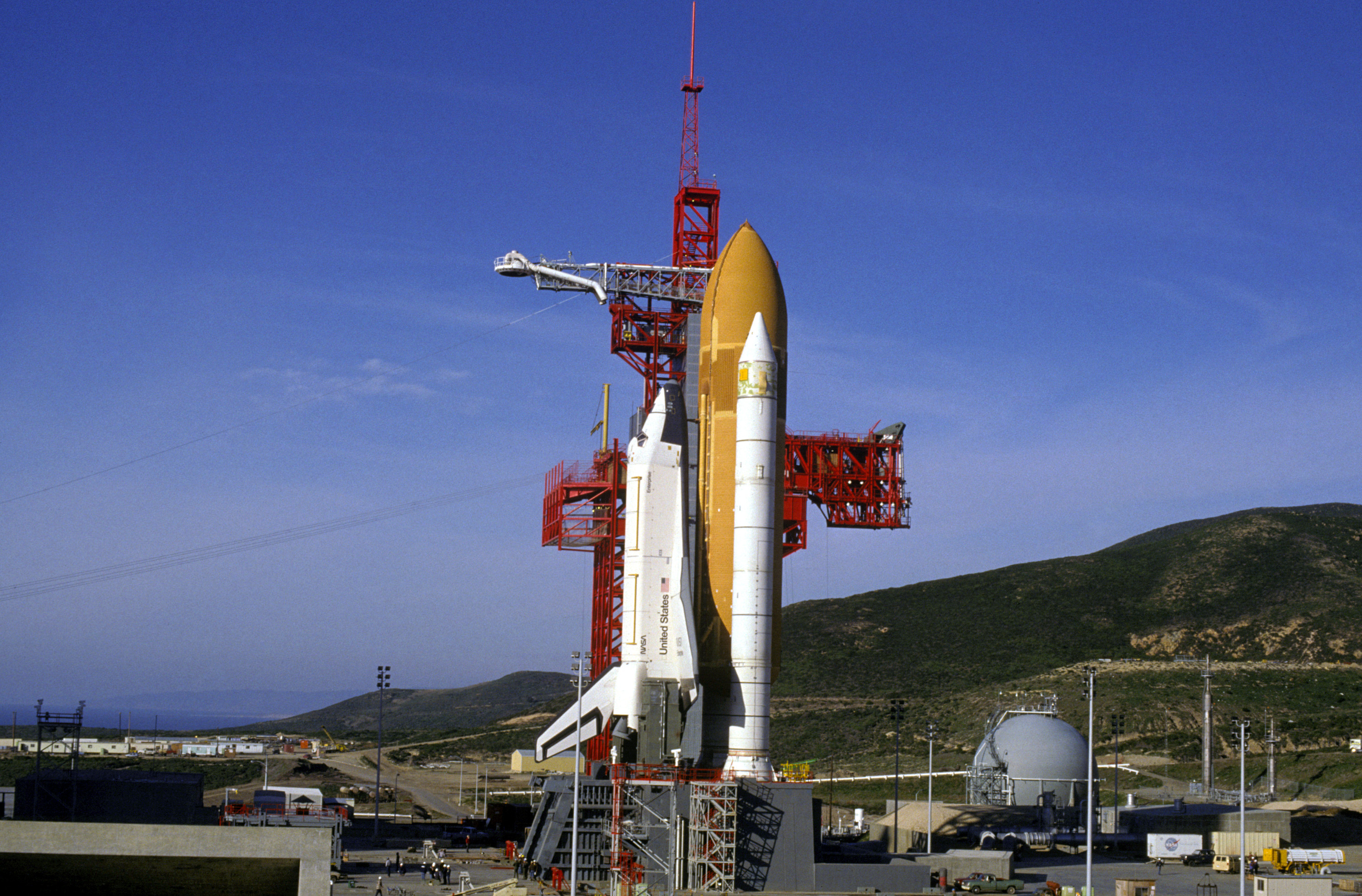 The space shuttle Enterprise stands fully assembled with its external fuel tank and solid rocket boosters atop America's West Coast launch facility at Vandenberg Air Force Base. The prototype orbiter was stacked at Space Launch Complex 6 in 1985 to practice procedures and check out the newly constructed pad for the Air Force's planned military space shuttle missions to polar orbit.